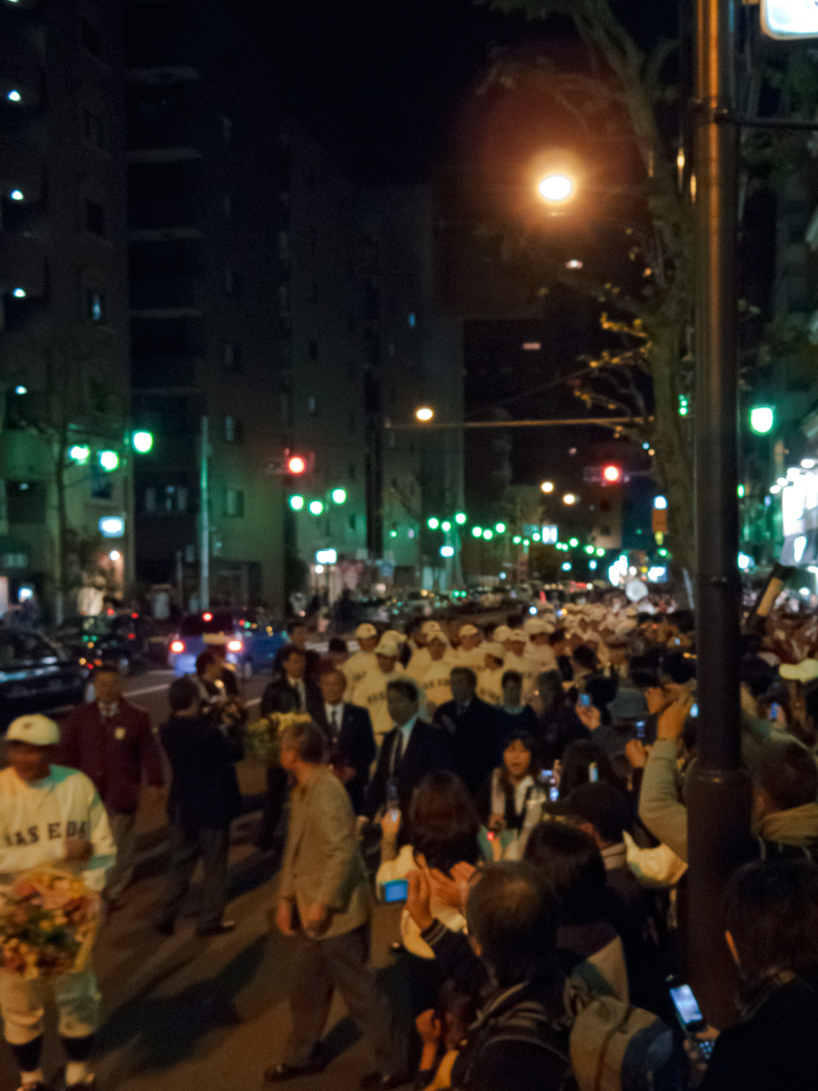 Athletes and students from Waseda University and citizens of Waseda celebrate the 2010 victory of the Waseda University baseball team in the Big6 Baseball League with a parade along Waseda Dori. Seen on the picture is the team followed by a marching band and a crowd of supporters.